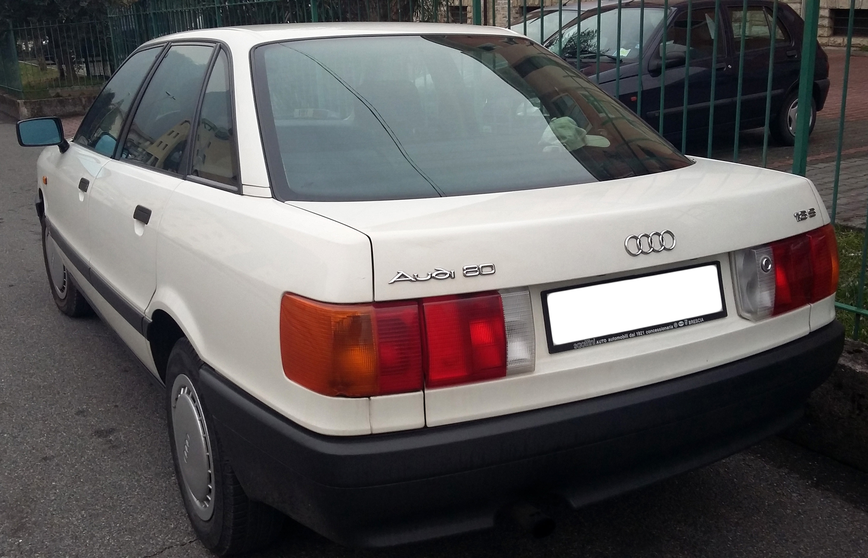 1986-1991 Audi 80, rear